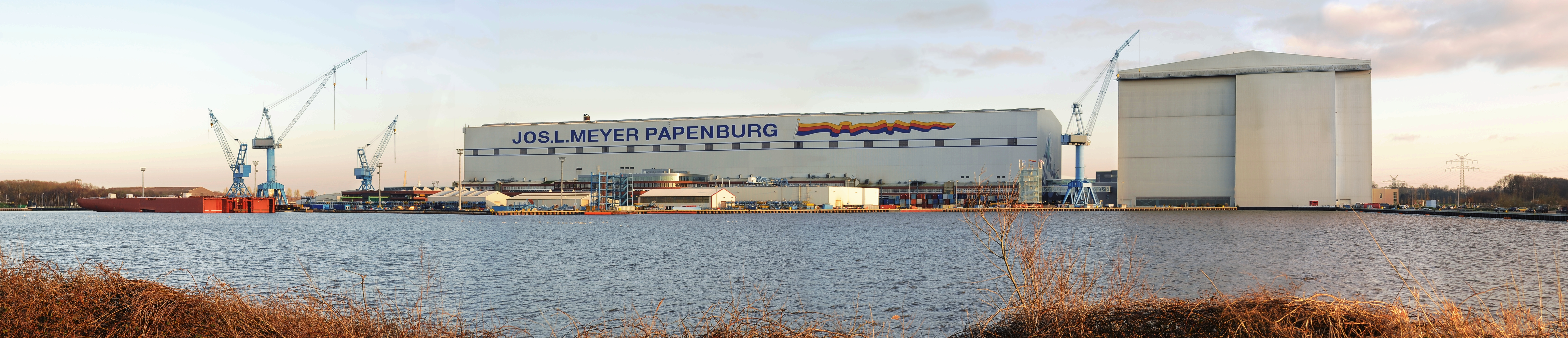 Meyerwerft